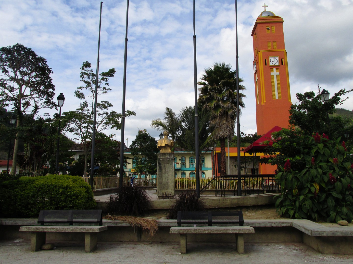 Municipio de Pijao, Quindío.